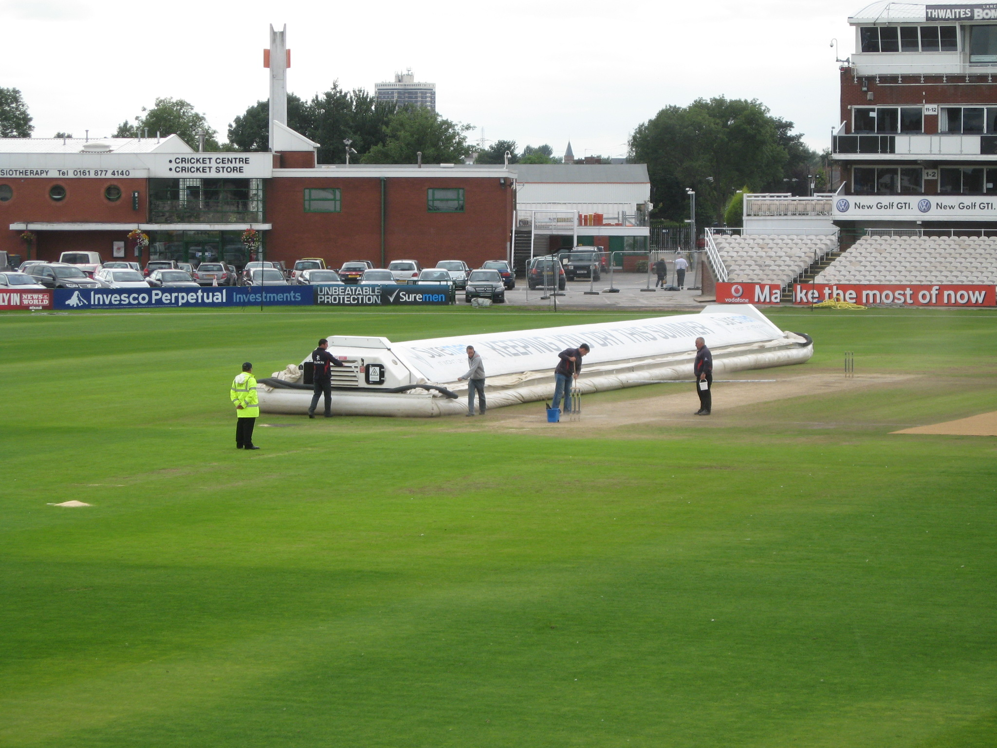 The hover cover being brought on to the Old Trafford cricket ground, August 2009.